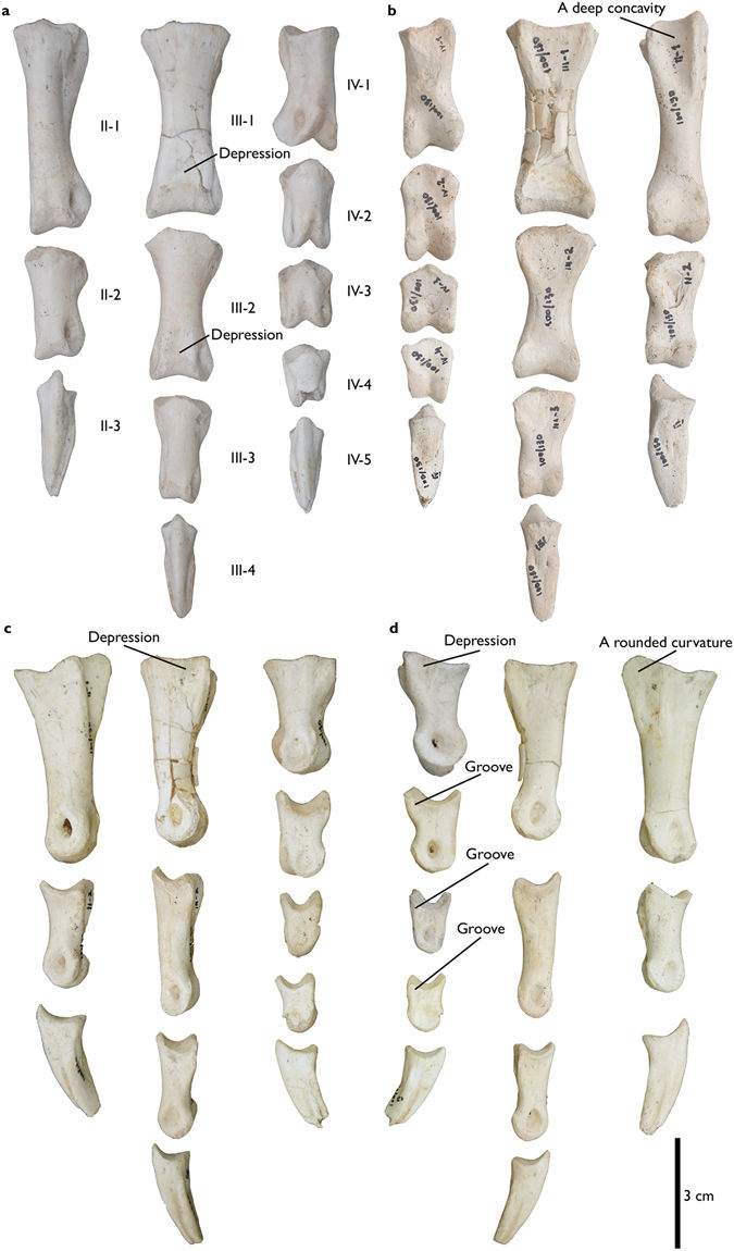 Phalanges of Aepyornithomimus tugrikinensis. (a), in dorsal, (b), in ventral, (c), in lateral, and (d), in medial views. Abbreviations: (II-1 to IV-5), phalangeal series of the second, the third, and the fourth digits.